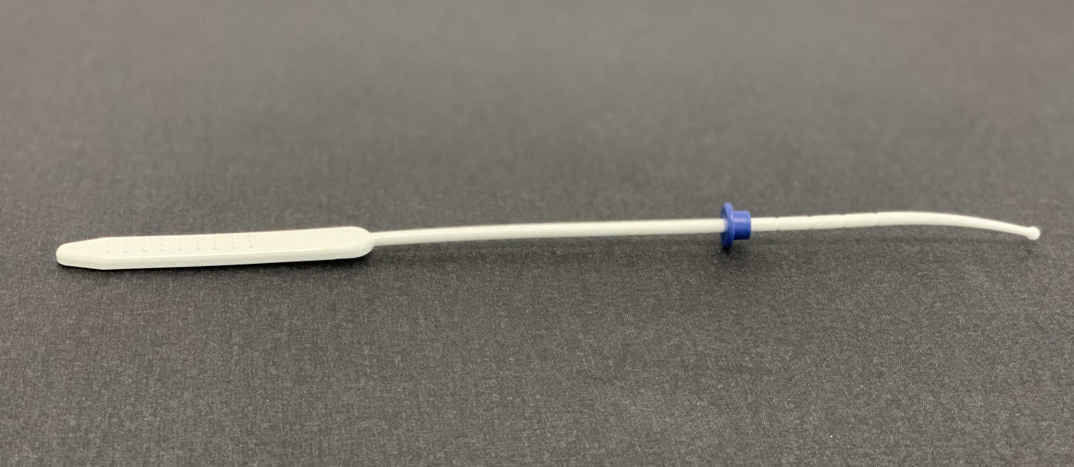 Uterine sound (single use), latex free, used for uterine cavity measurement in gynaecology procedurtes